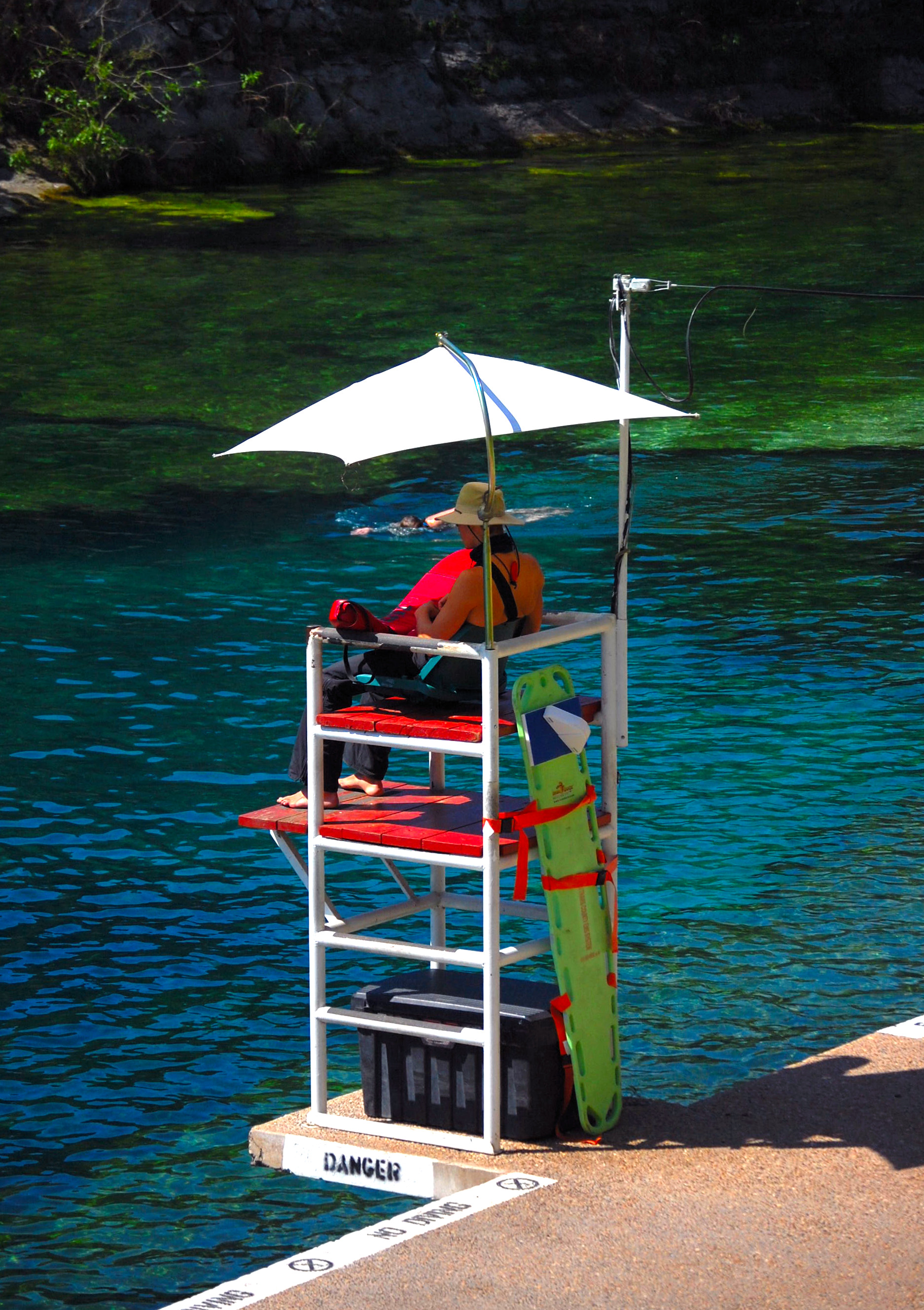 Lifeguard at Barton Springs Pool